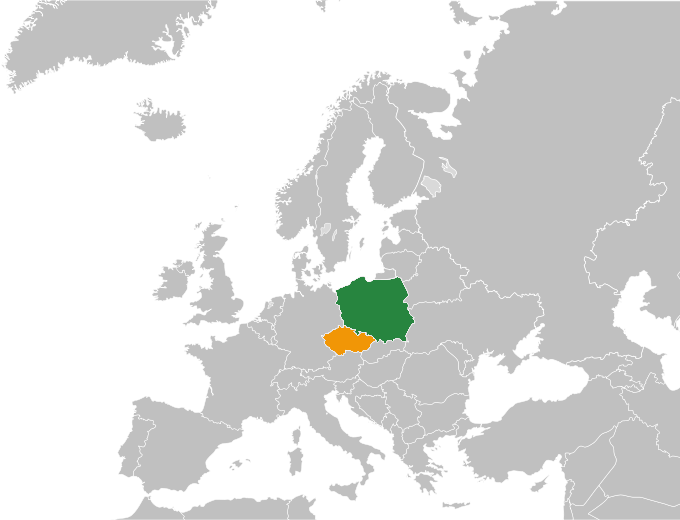 Location of Poland and Czech Republic